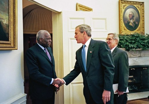 President George W. Bush welcomes President Jose Eduardo dos Santos of Angola to the Oval Office Wednesday, May 12, 2004.